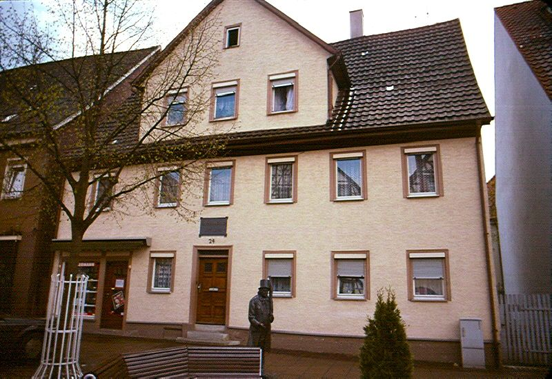 This image was taken by my grandfather, who forfeits all rights.